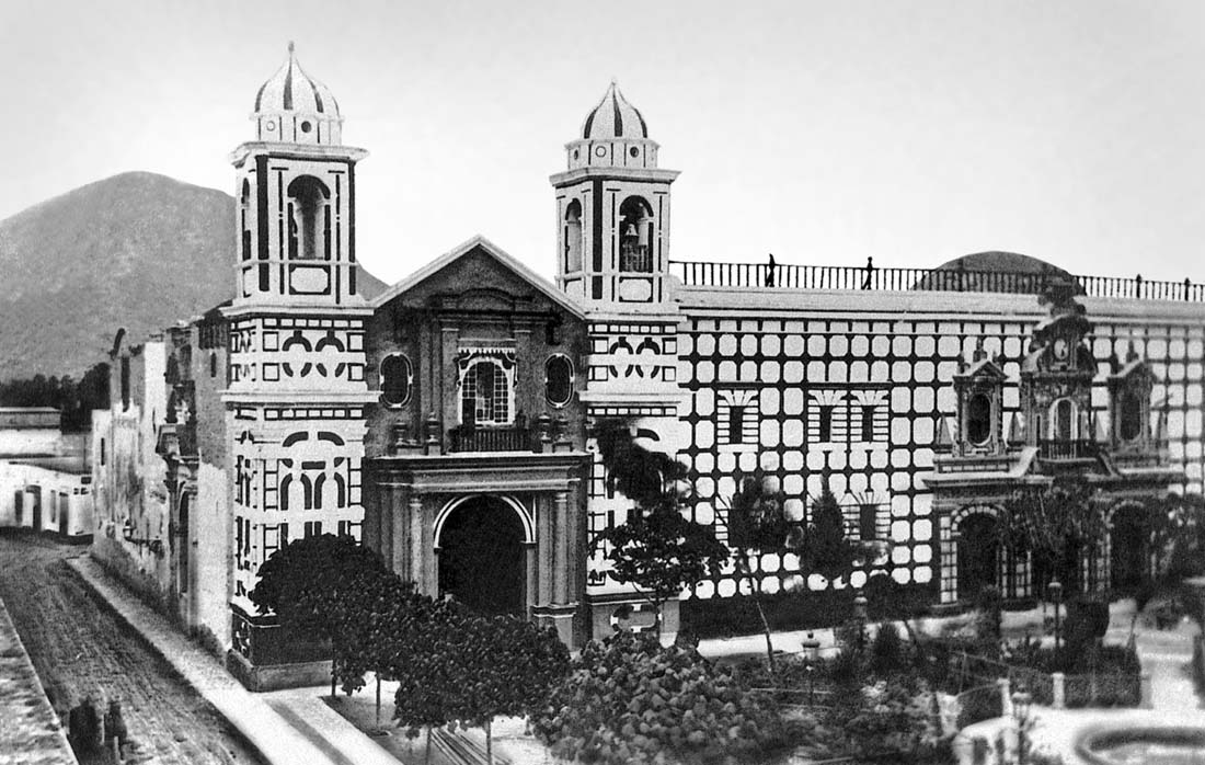 Church of Soledad in Lima, Peru